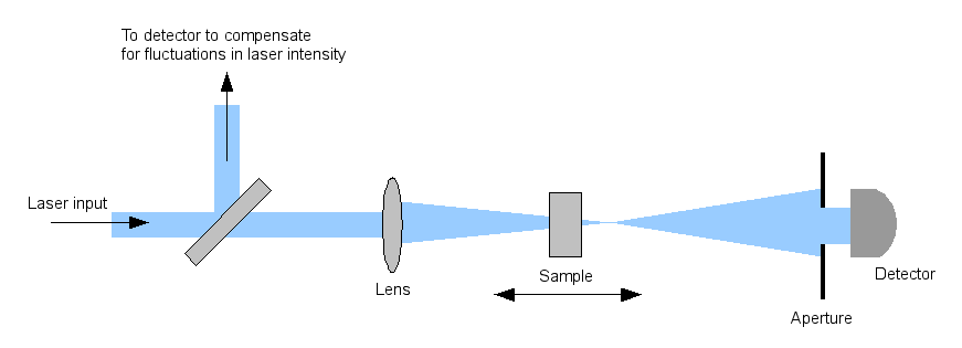 Diagram of a Z Scan measurement